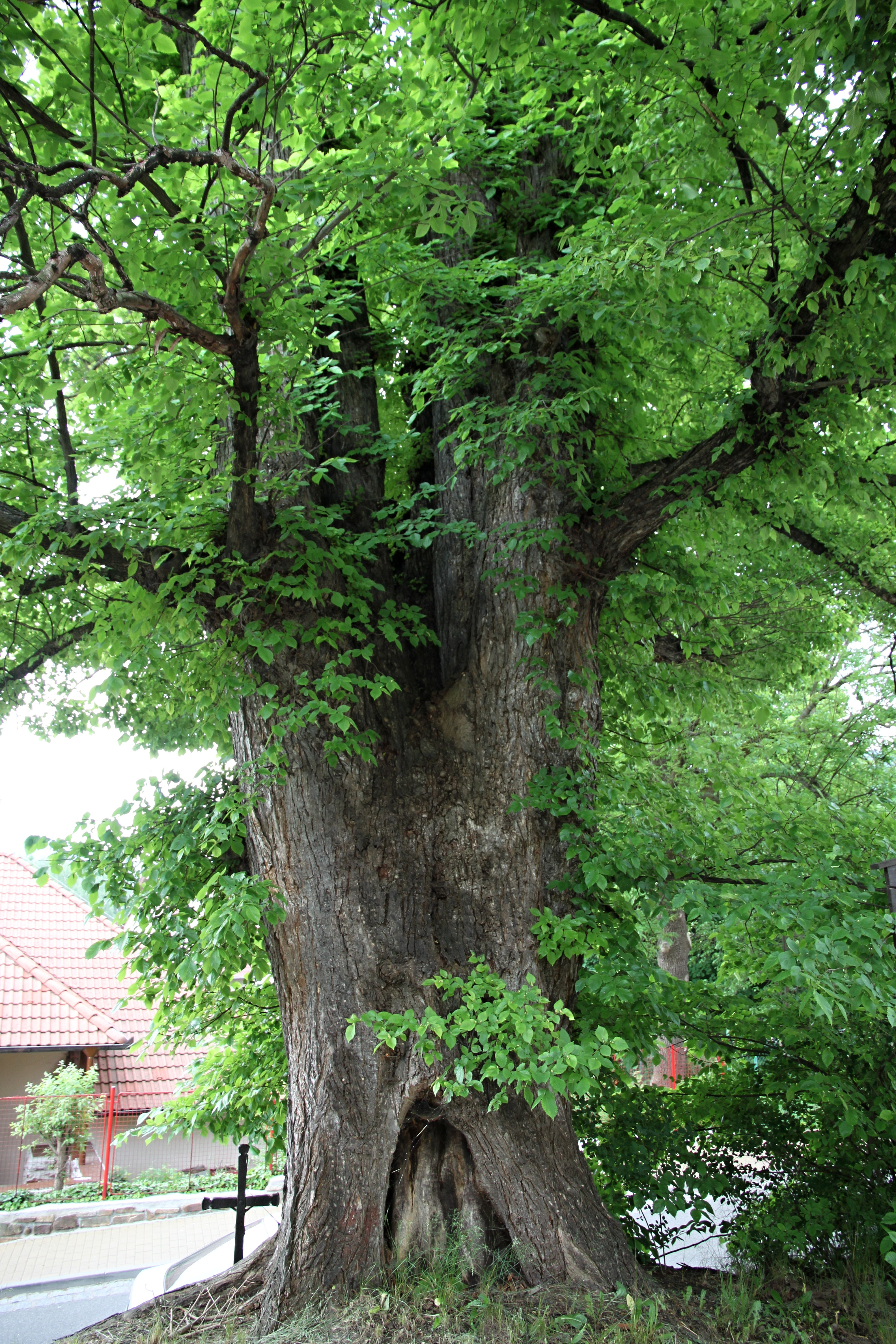 Prachatický elm (Ulmus glabra Huds.), famous tree in Prachatice, South Bohemia, Czechia.